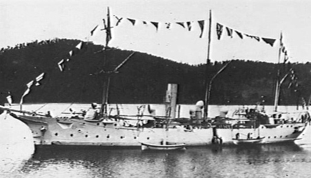 AWM caption : "TASMANIA, 1905. PORT SIDE VIEW OF THE SLOOP HMS CLIO, DRESSED OVERALL. NOTE THE 4 INCH GUNS ON THE FORECASTLE, AMIDSHIPS AND ON THE POOP."